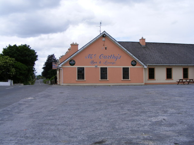 McCarthy's Bar and Lounge - Kilbeacanty Townland